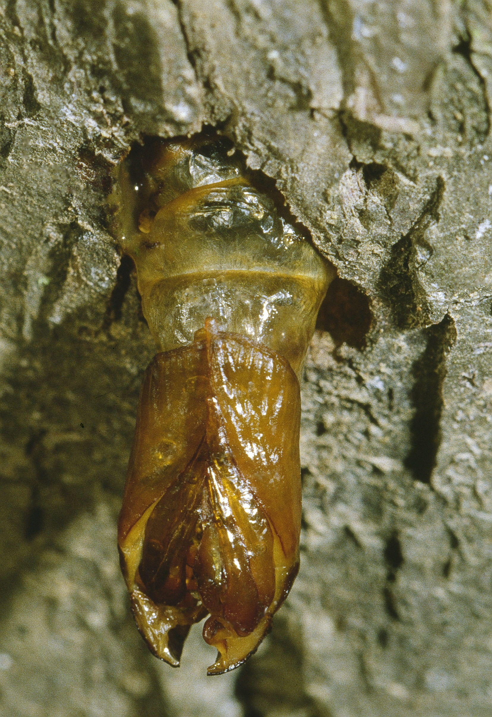 Part from chrysalis Zeuzera pyrina emerge apple-tree after birth butterfly.